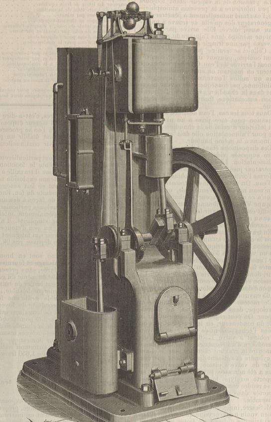 Frontal view of the commercial atmospheric engine manufactured by Hathorn, Davey & Co, Leeds, England described in Revue Industrielle (1885)